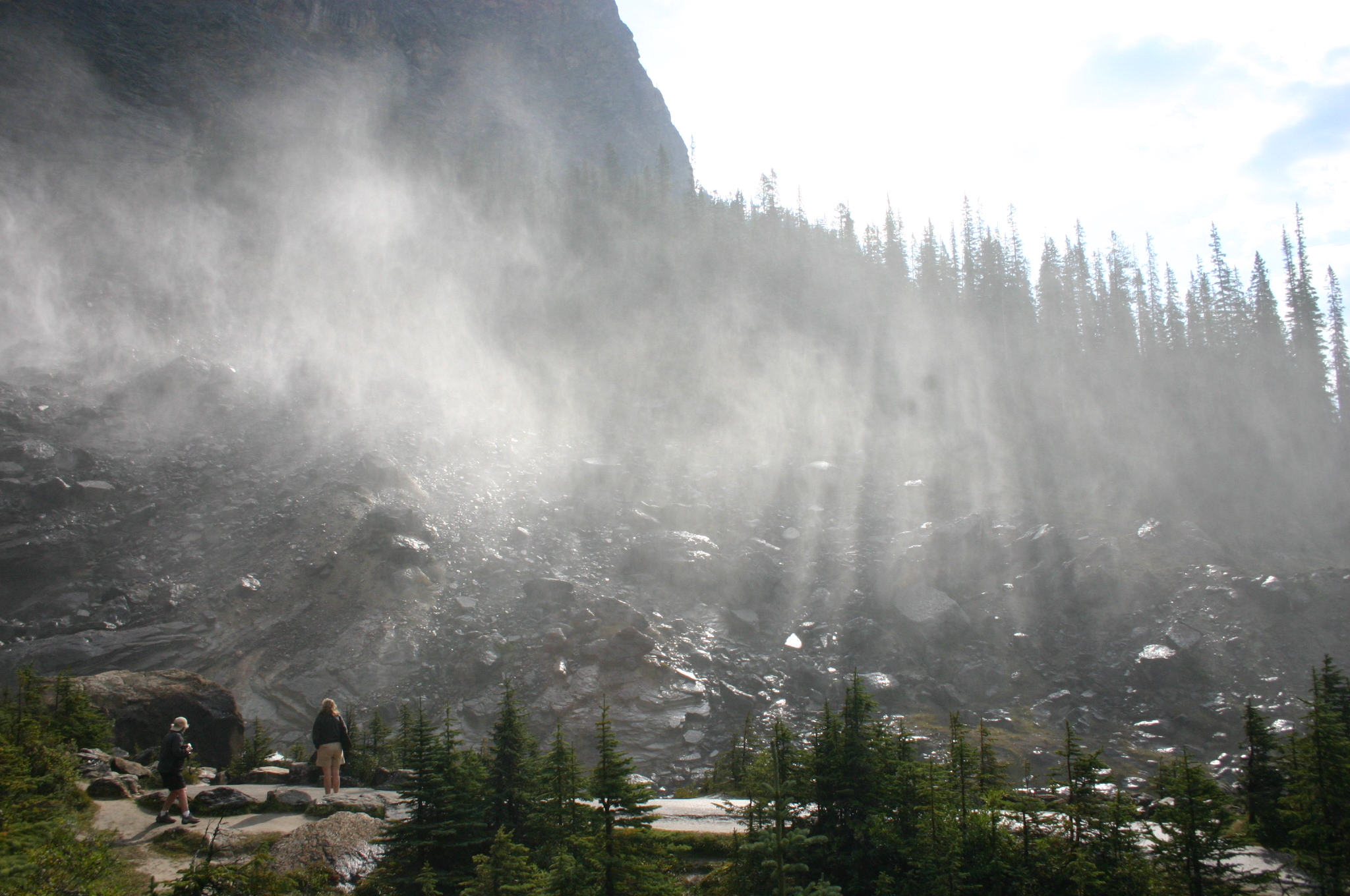 Crepuscular rays beam through the mist blown from Takkakaw Falls.